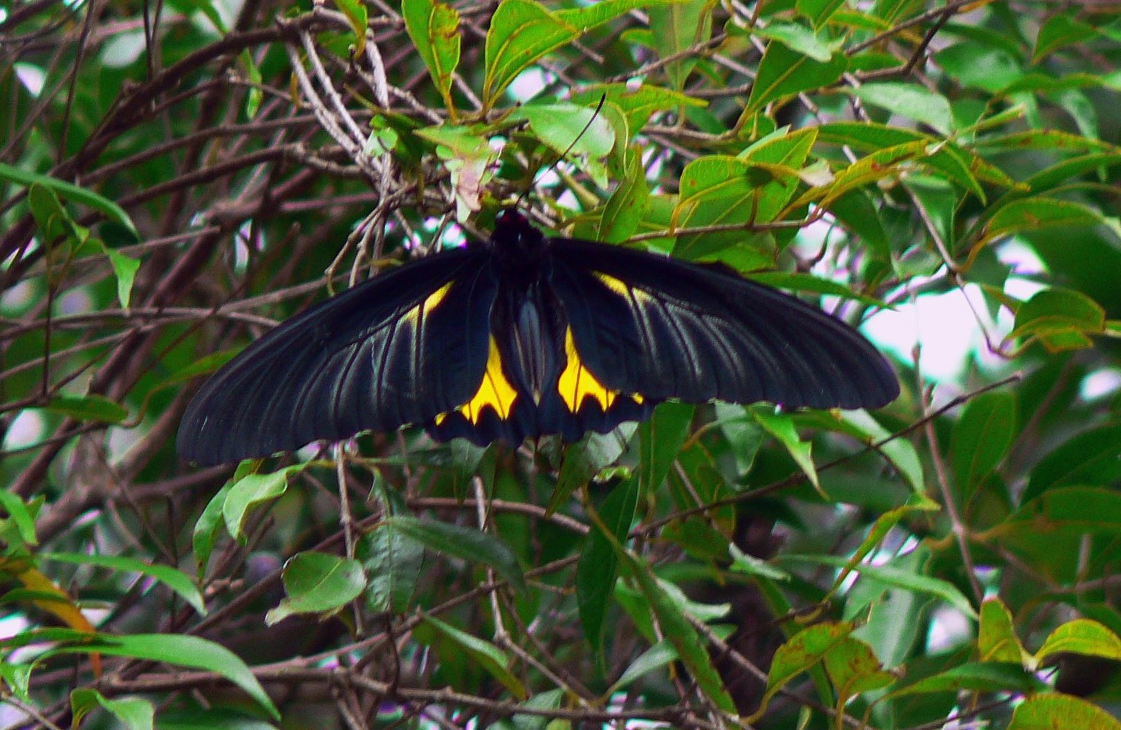 Southern Birdwing Troides minos, Family Papilionidae, Lepidoptera.